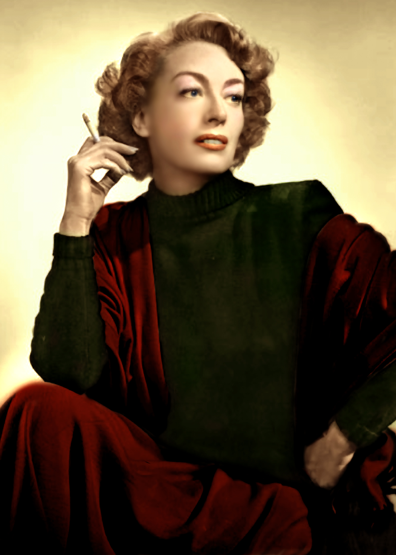 Actress Joan Crawford.